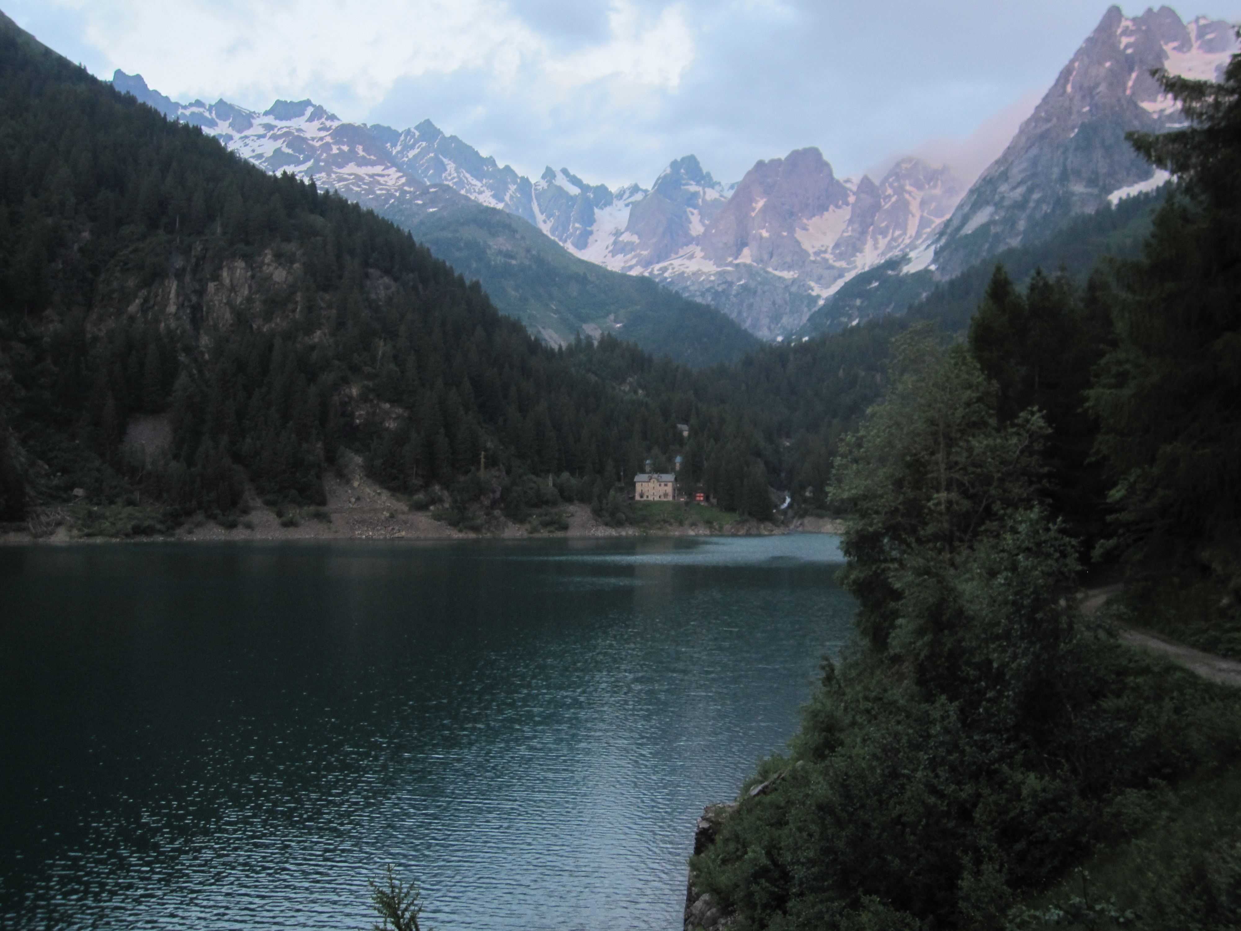 23020 Piateda, Province of Sondrio, Italy